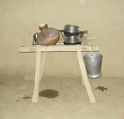 pots for keeping water, used in areas of punjab Pakistan